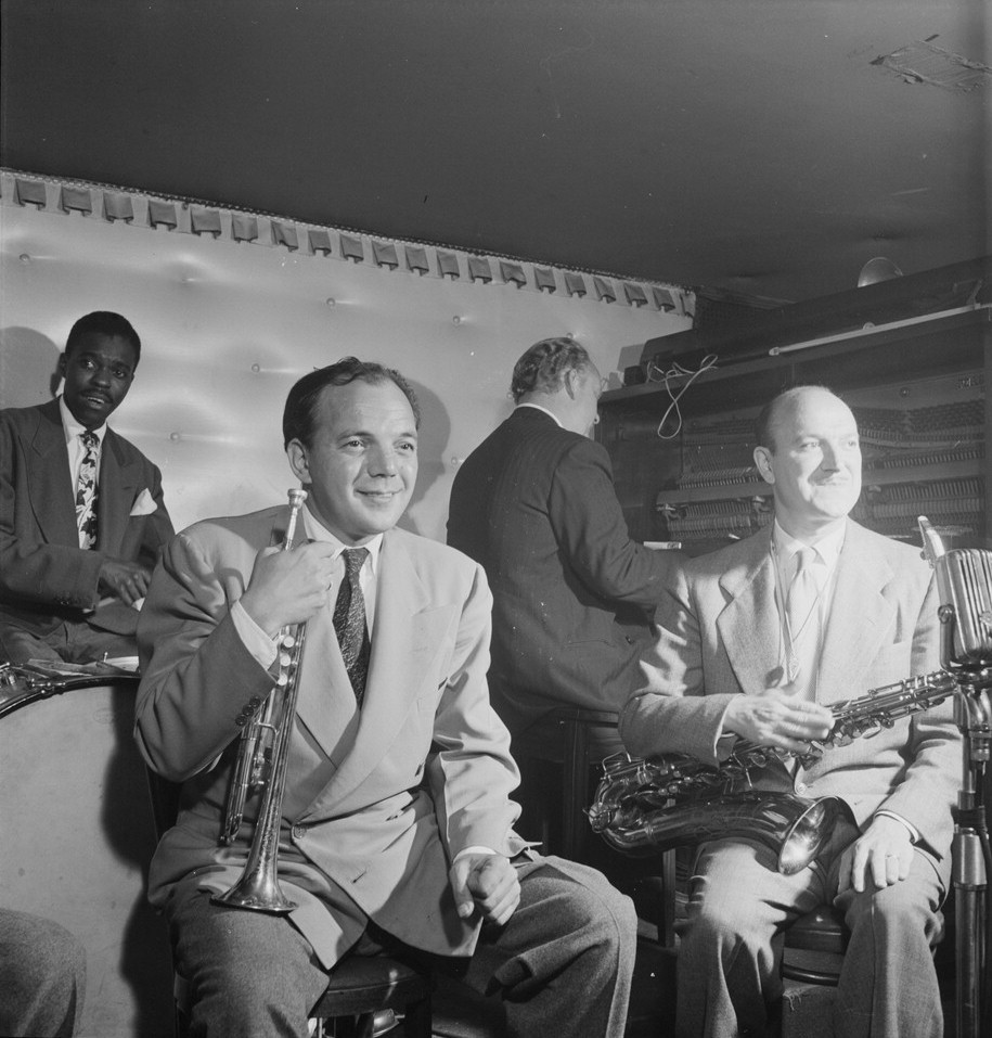 Marty Marsala (2 April 1909–27 April 1975) was an American jazz trumpeter born in ChicagoGottlieb, William P., 1917-, photographer. [Portrait of Marty Marsala and Bud Freeman, between 1938 and 1948] 1 negative : b&w ; 2 1/4 x 2 1/4 in. Notes: Gottlieb Collection Assignment No. 368 Reference print available in Music Division, Library of Congress. Purchase William P. Gottlieb Forms part of: William P. Gottlieb Collection (Library of Congress). Subjects: Marsala, Marty Freeman, Bud, 1906- Jazz musicians--1930-1950. Trumpet players--1930-1950. Saxophonists--1930-1950. Drummers (Musicians)--1930-1950. Pianists--1930-1950. Format: Portrait photographs--1930-1950. Group portraits--1930-1950. Film negatives--1930-1950. Rights Info: Mr. Gottlieb has dedicated these works to the public domain, but rights of privacy and publicity may apply. Repository: (negative) Library of Congress, Prints & Photographs Division, Washington D.C. 20540 USA, (reference print) Library of Congress, Music Division, Washington D.C. 20540 USA, Part Of: William P. Gottlieb Collection (DLC) 99-401005 General information about the Gottlieb Collection is available at Persistent URL: Call Number: LC-GLB23- 0608